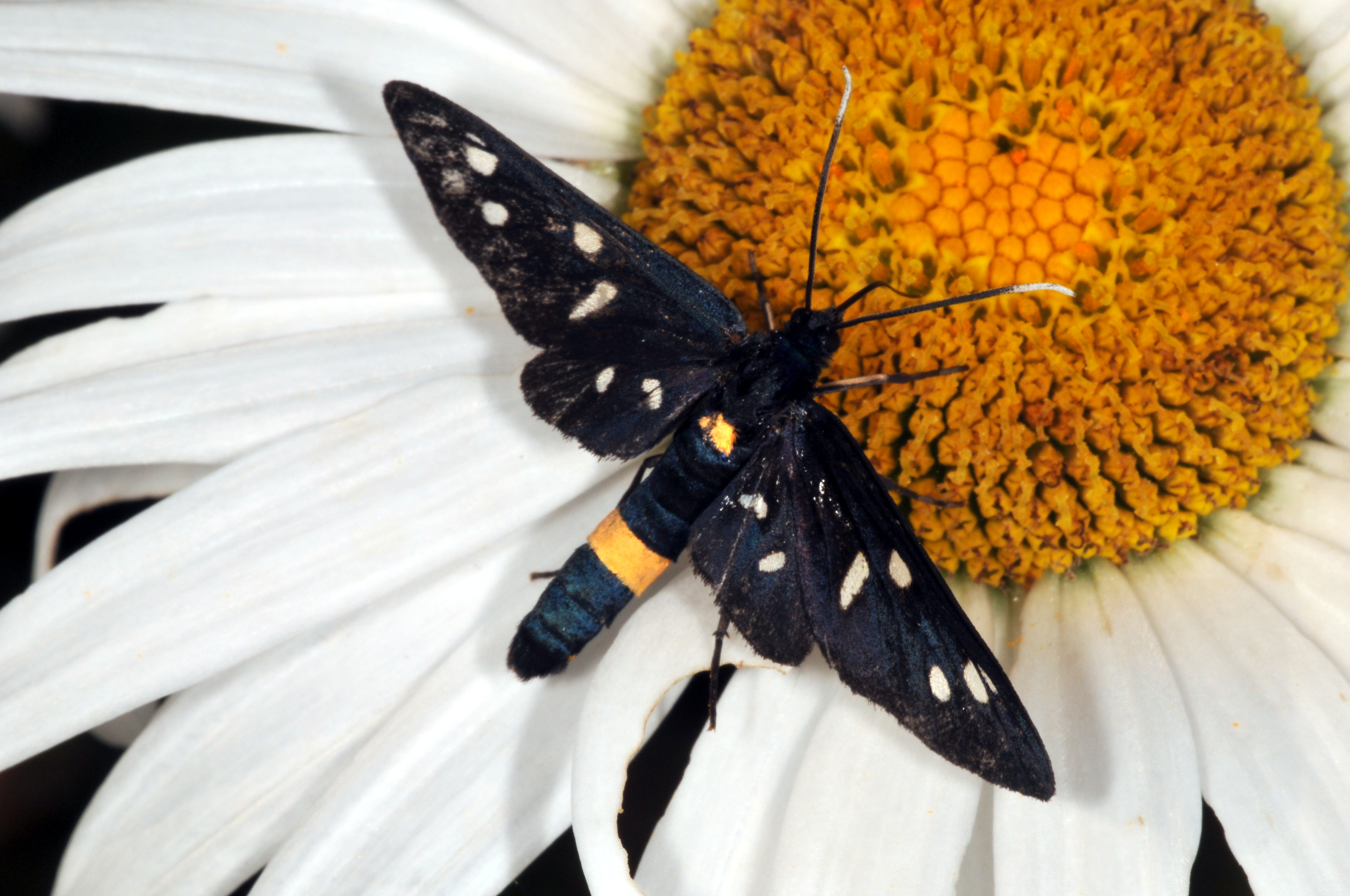 Amata phegeaTenthredinidae, Croatia, Istriea, Učka